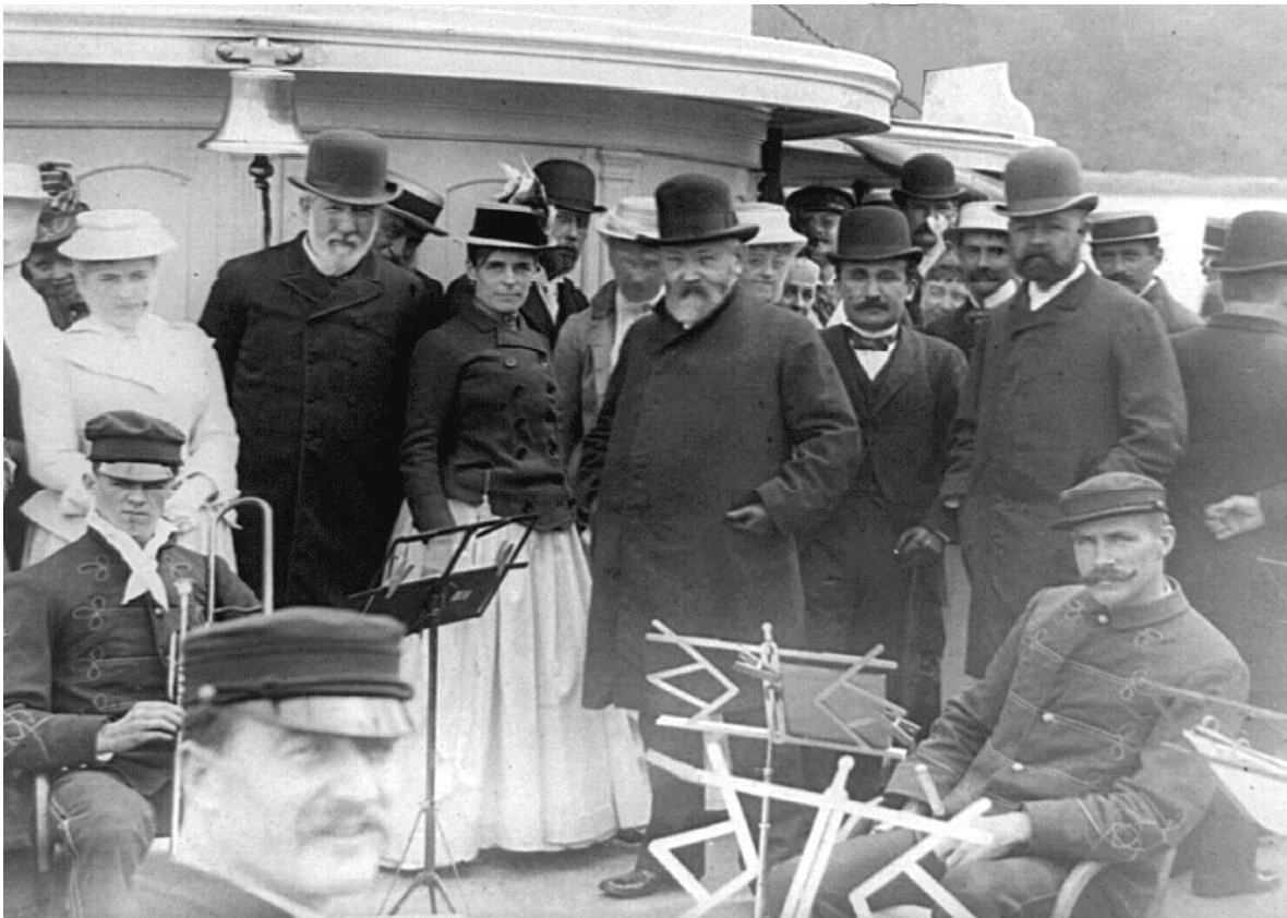 President Harrison on ship, possibly Sappho, with Sec. James G. Blaine and Rep. Henry Cabot Lodge. Bar Harbor Band in foreground.